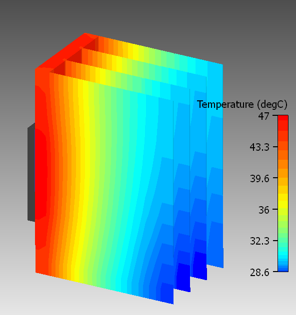 Temperature distribution on an aluminium heat sink with low efficiency cooling fins. The fin temperature decreases from the base to the fin top. The numerical simulation was performed with the CFD software Flotherm. Heat sink dimensions 25 x 55 mm, fin height 35 mm, fin thickness 0.2 mm, air temperature 20°C, air velocity 3 m/s, heat dissipation 12 W.